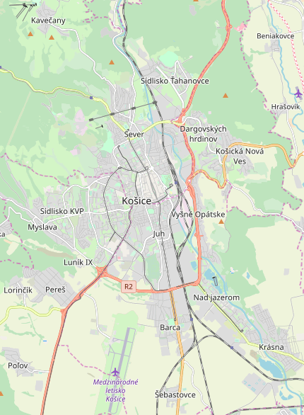 This map may be incomplete, and may contain errors. Don't rely solely on it for navigation.